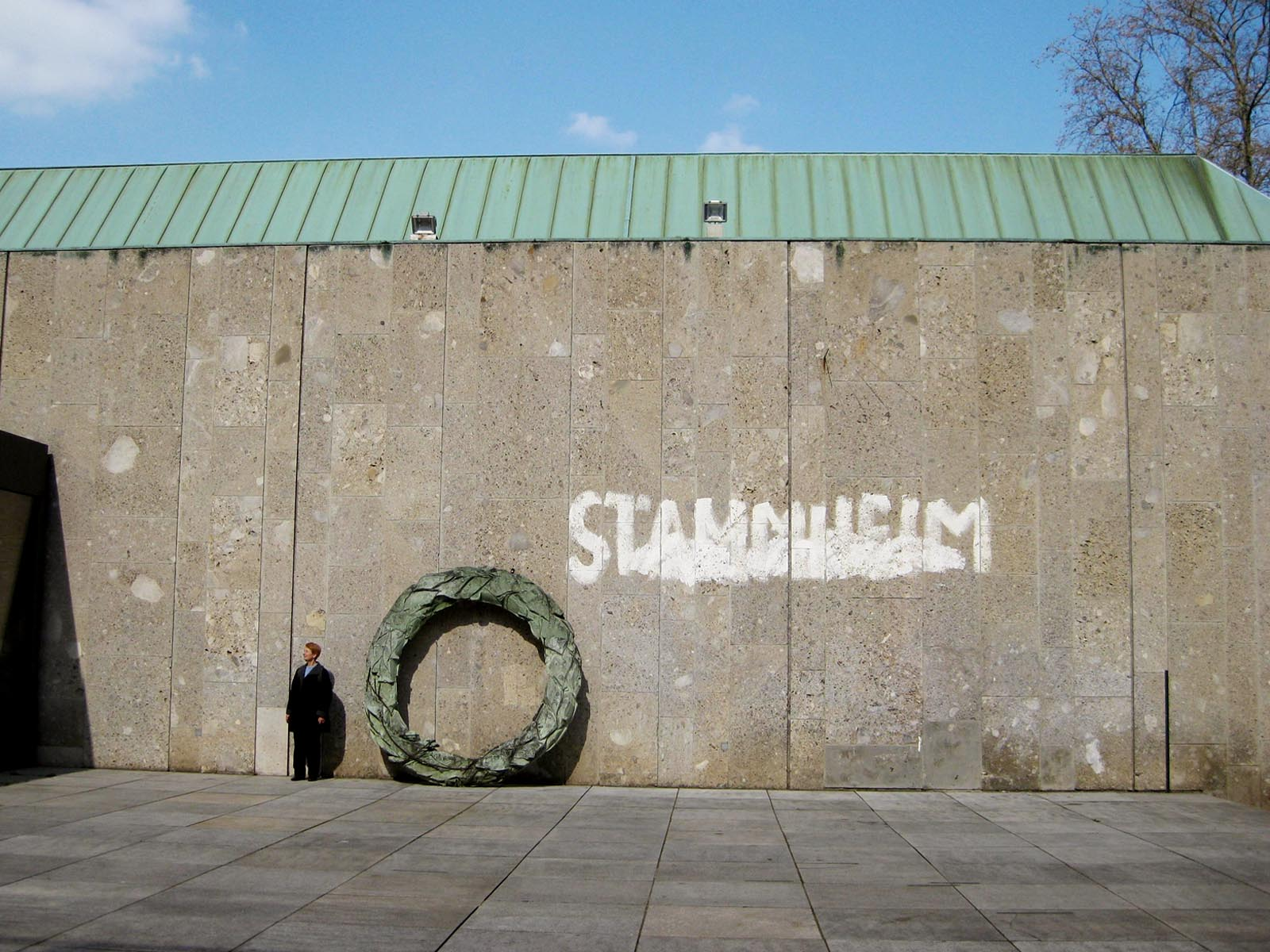 Olaf Metzel, "Stammheim 1984", Germany, Baden-Wuerttemberg, Stuttgart, Kunstgebaeude